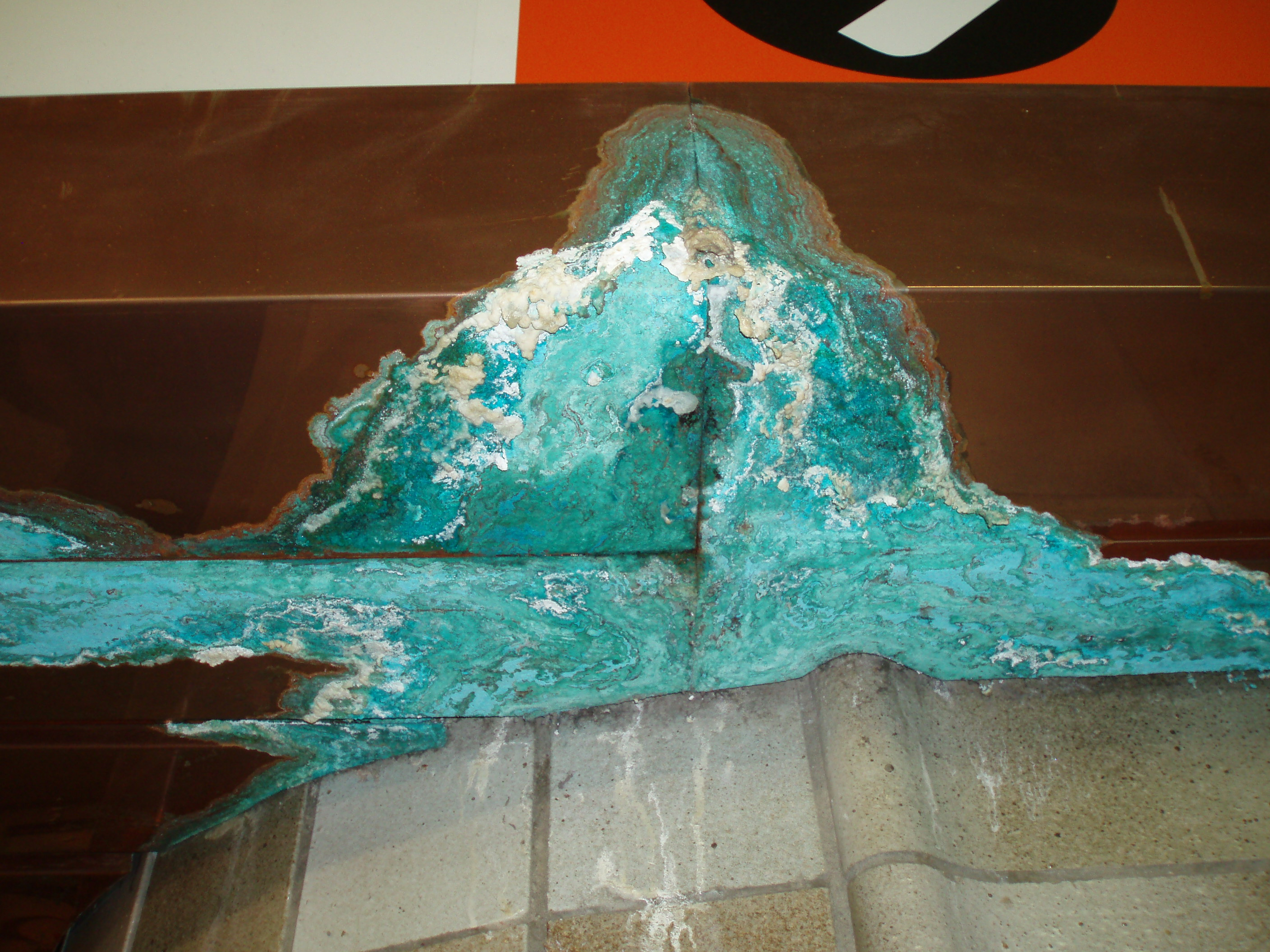 Patina in Prague Underground